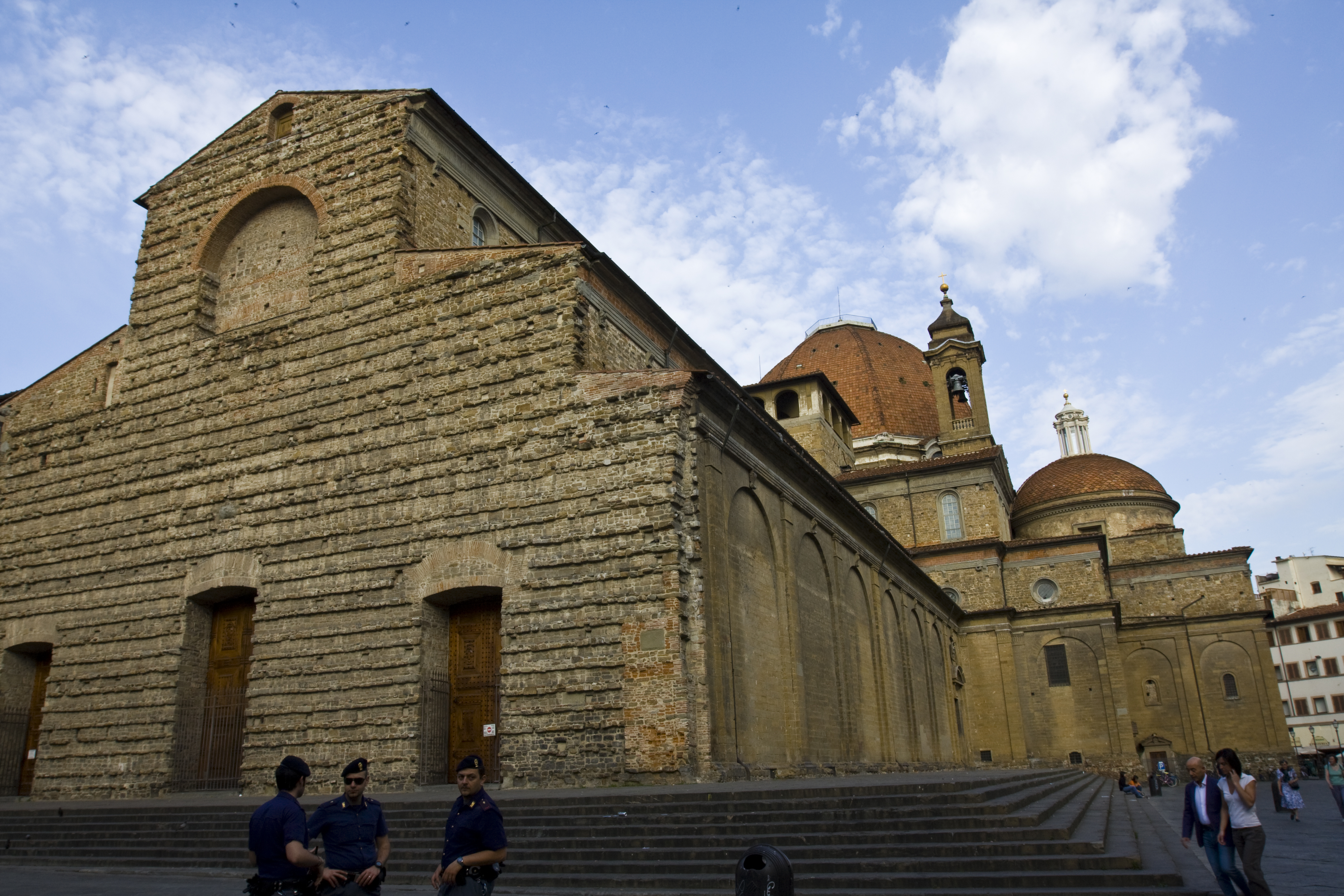 Basilica of San Lorenzo, Florence, Italy